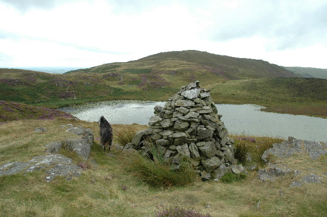 Cairn adjacent to Llyn Barfog. This is one of two cairns close to Llyn Barfog. On the Landranger maps, this one is shown in plain text and is slightly to the north and east of the lake. I tried to find the other, older cairn but failed.